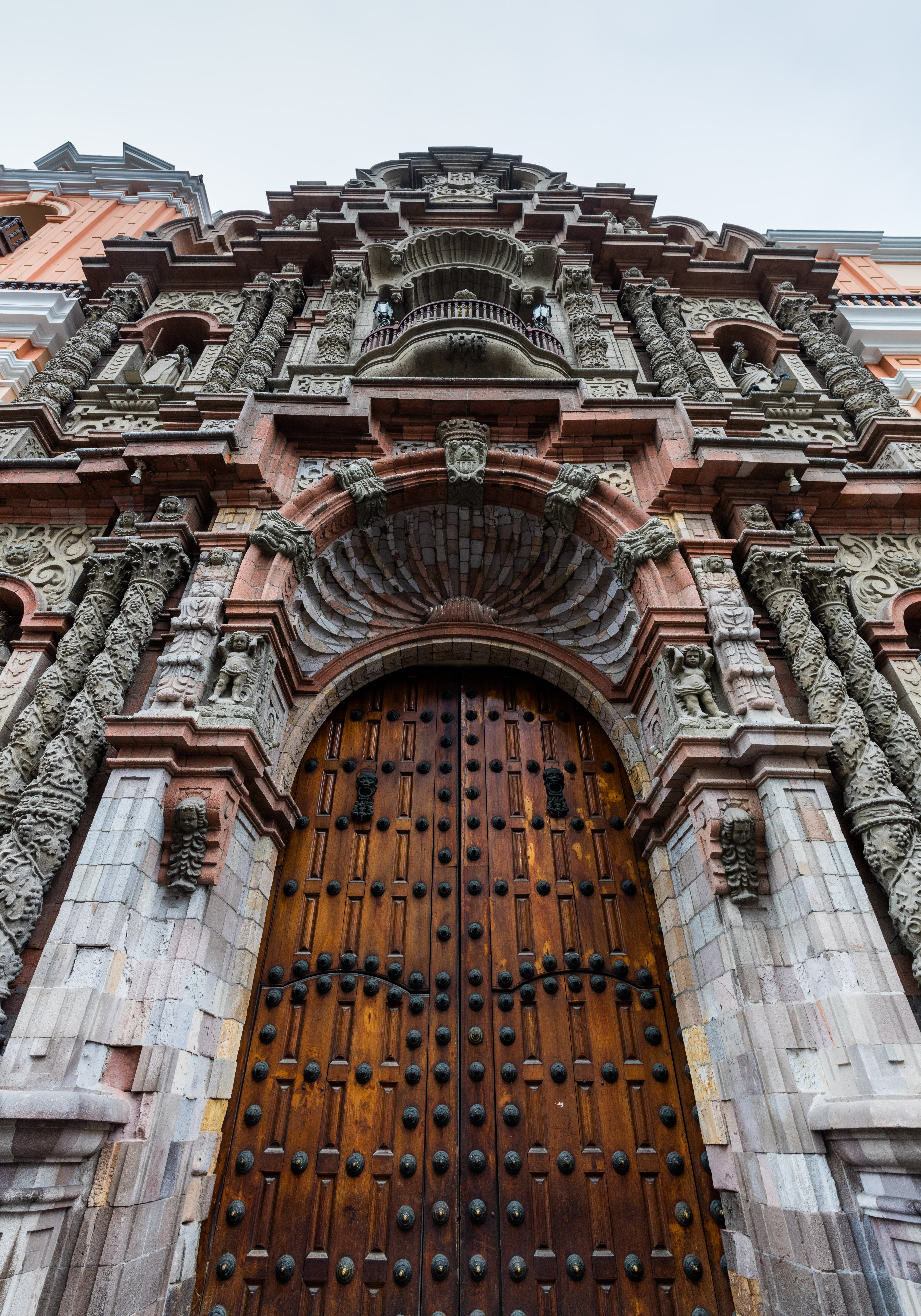 Church of The Mercy, Lima, Peru